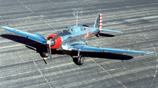 Northrup A-17A at the USAF Museum.